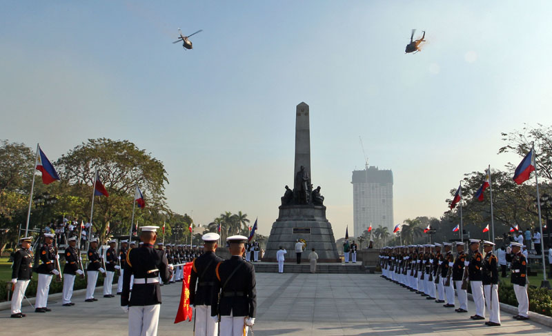 President Benigno S. Aquino III offers a wreath during the commemoration of the 119th Anniversary of the Martyrdom of Dr. Jose Rizal at the Rizal Monument in Rizal Park, Manila.